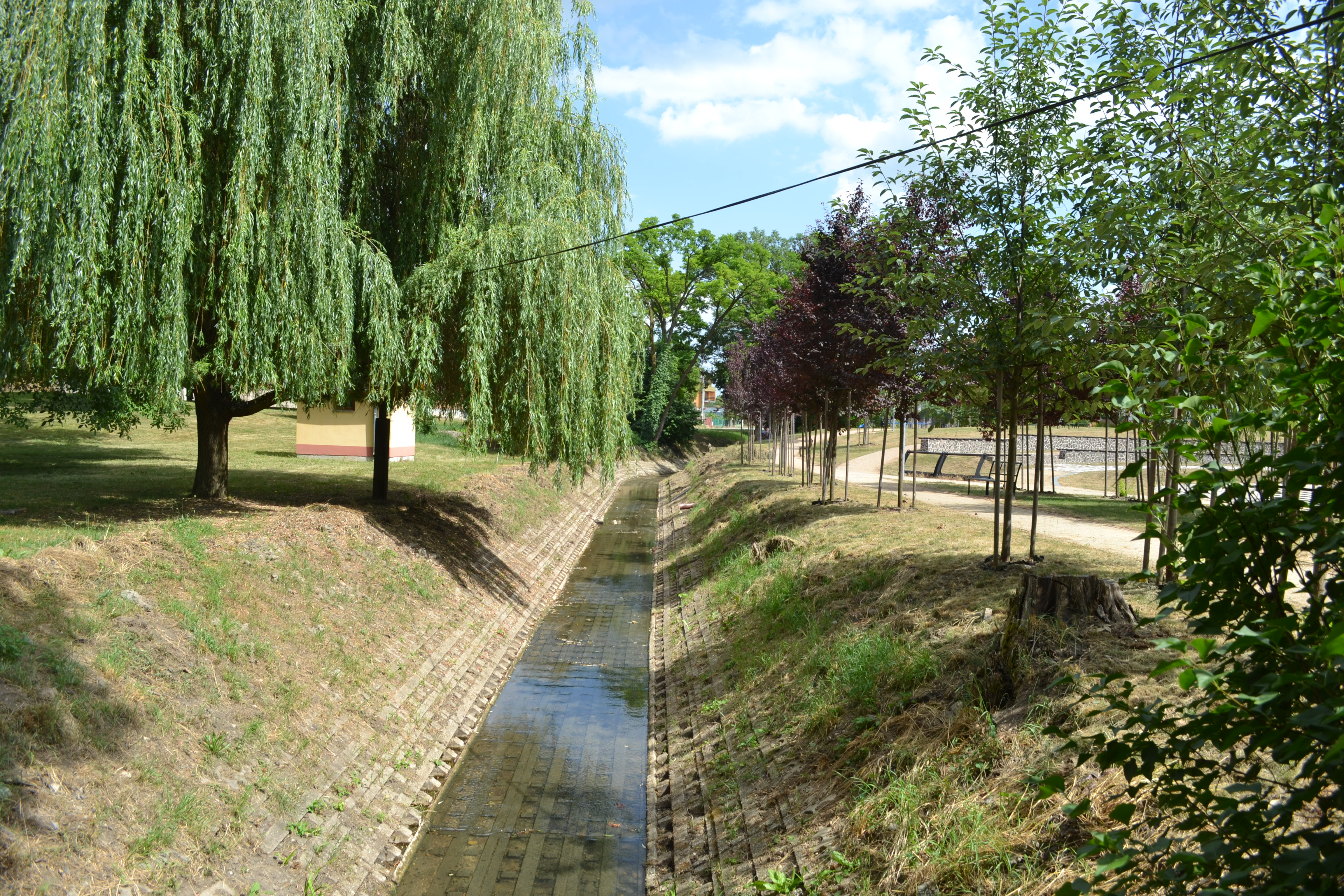 Teška stream flowing through the village ČížSlovenčina: Potok Teška tečúci obcou Číž